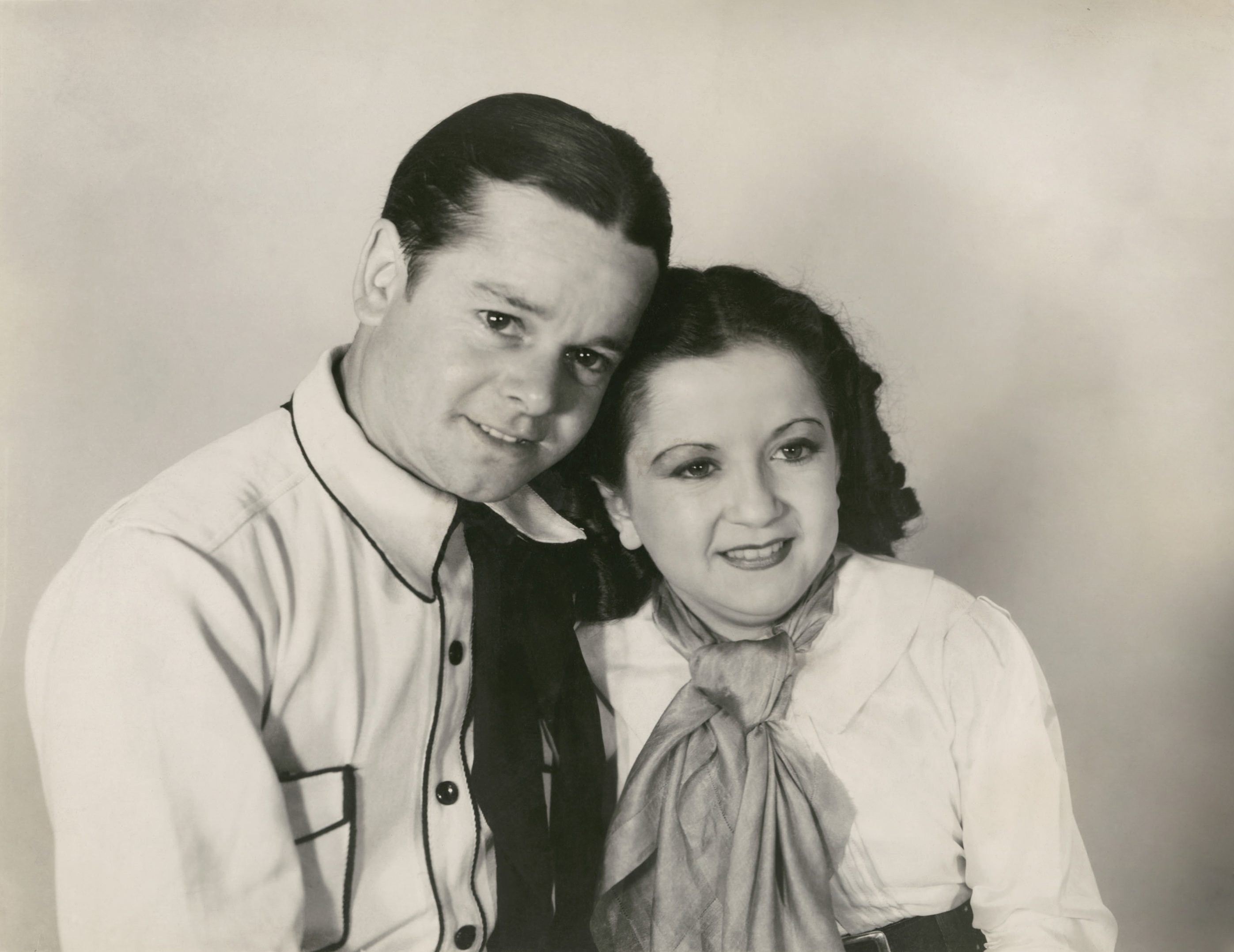 Billy Curtis & Yvonne Moray in The Terror of Tiny Town - publicity still